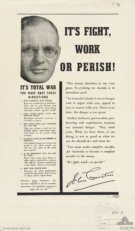 An Australian Government leaflet telling Australians that they must make sacrifices for the war effort. AWM item RC02370